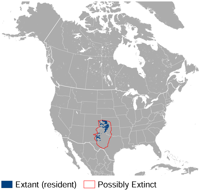 Geographical distribution of the Lesser Prairie Chicken Tympanuchus pallidicinctus. The map was created using the Generic Mapping Tools, GMT, version 5.1.2.